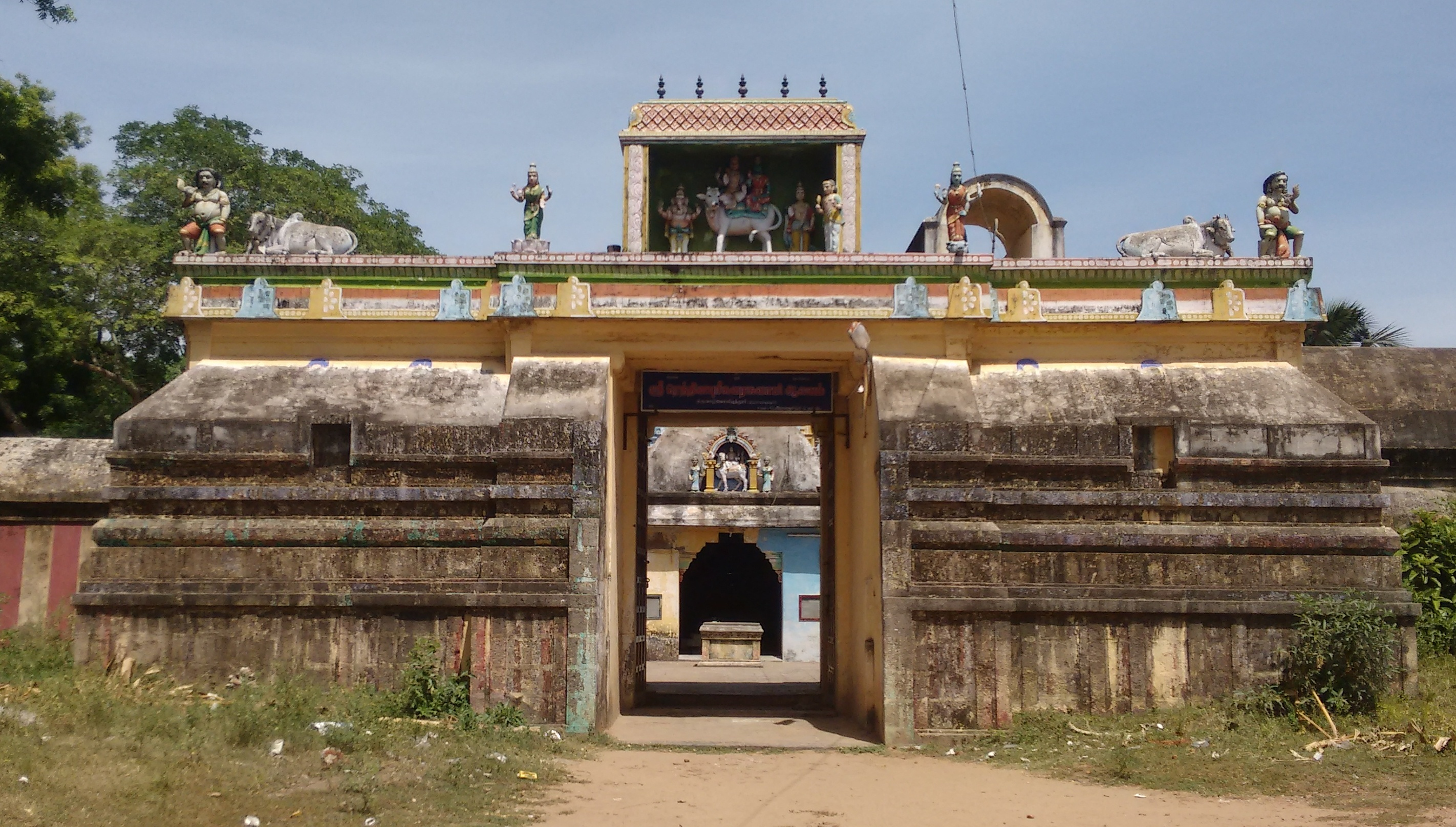 திருவாழ்கொளிப்புத்தூர் மாணிக்கவண்ணார் கோயில் Tiruvalkolipputtur Manickavannar Temple